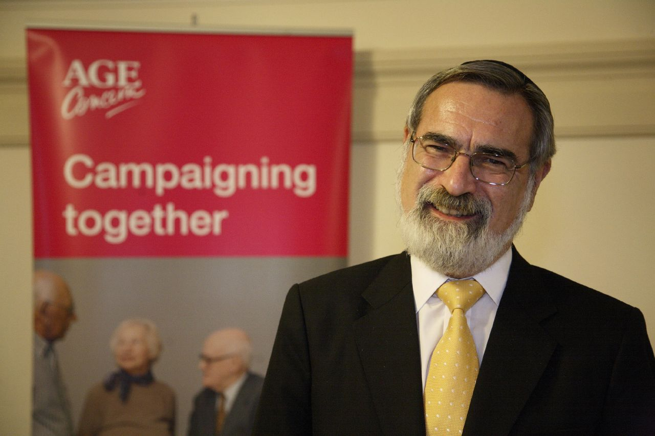 Rabbi Sir Jonathan Sacks, Chief Rabbi of Britain., at National Poverty Hearing 2006 at Central Hall Westminster.Rabbi Sir Jonathan Sacks